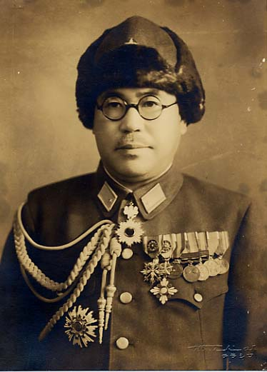 Photo of Nobuyoshi Obata (General of the Imperial Japanese Army)